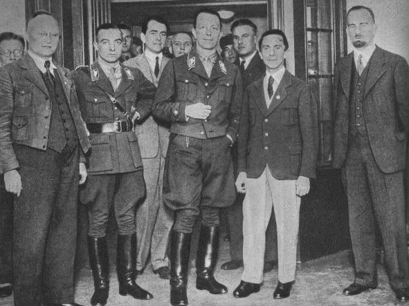 The staff of the NSDAP district Berlin photographed on the occasion of Hitler's appoinment to the office of Reich-Chancellor: Karl Ernst, Count Helldorf, Joseph Goebbels and Karl Hanke. In the background betweend Ernst and Helldorf: Albert Speer.